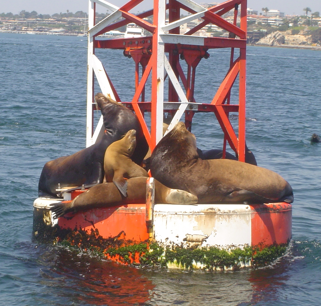 Sea lions on a buoy off the coast of Balboa Island, California. Taken by: JennaMarie83 Date taken: August 25, 2004 Des otaries sur une balise ; photo prise du littoral de l'île Balboa, Californie. Photo prise par : JennaMarie83 Date : 25 Août, 2004